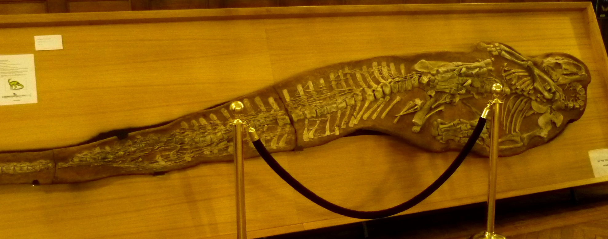 Tenontosaurus, Institut de paléontologie humaine, Paris, France